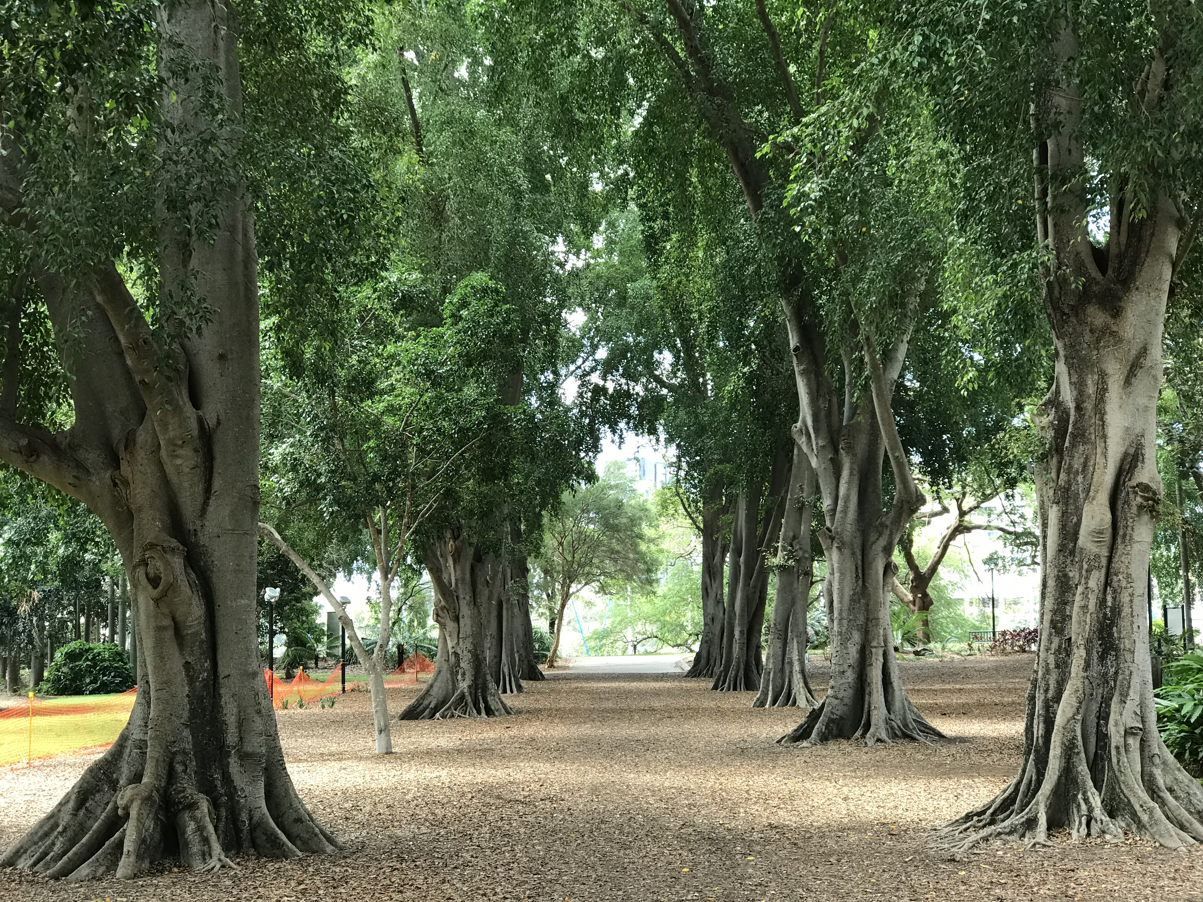 Tree lined avenue at the City Botanic Gardens, Brisbane